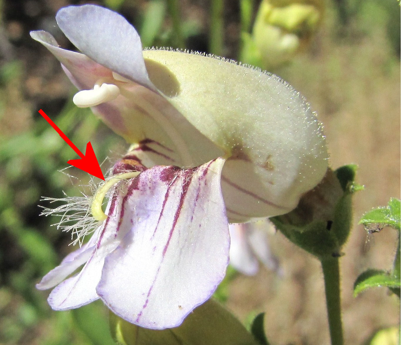 Grinnell's beardtongue Penstemon grinnellii The red arrow points to the staminode. Location: near summit of Mt. Wilson, California, USA